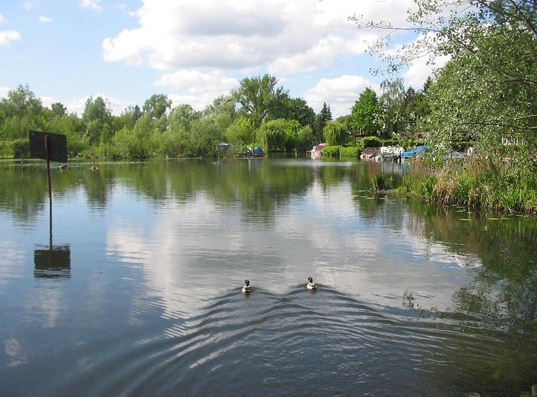 Lake, formed by some canals, in Tiefwerder. Tiefwerder is a former village, founded in 1816, in Berlin-Spandau and an ait in Berlin-Wilhelmstadt from river Havel. The Tiefwerder Wiesen (meadows) are a protected area (german: Landschaftsschutzgebiet) and Berlins last natural flood plain and last spawn-area for the Northern pike.